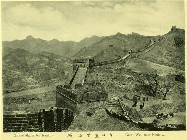 old photo from China 1900-1903, see the file's name for detail.